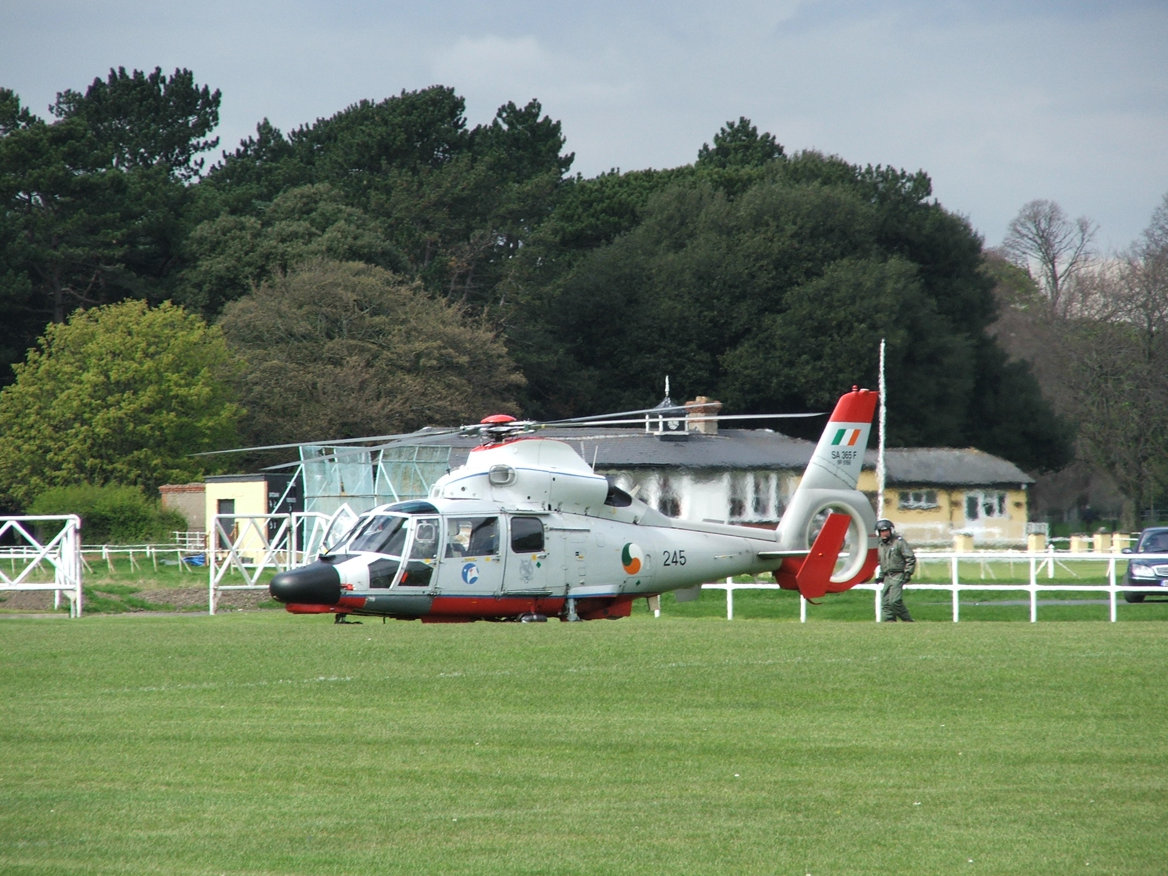 Irish Air Corp's French-made SA-365F landing to Phoenix Park in Dublin, Ireland